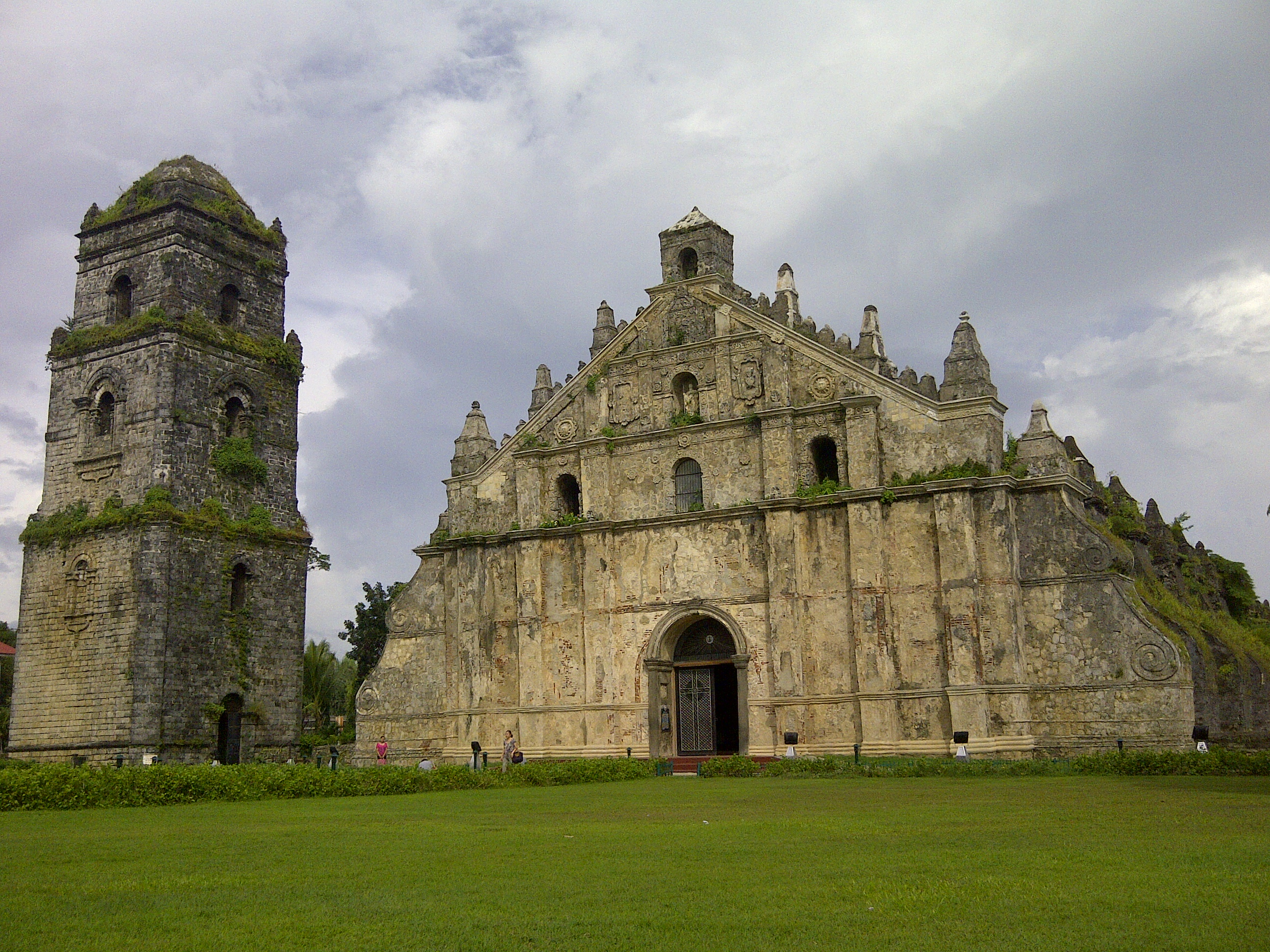 St. Augustine Church, or more popularly known as Paoay church, is one of the oldest churches. Located in Ilocos Norte (north of Philippines) The church construction was started during the early 1700s and took a century to complete. It is globally and internationally acknowledged as one of the most unique and very historical examples of Filipino architecture from the Spanish period.